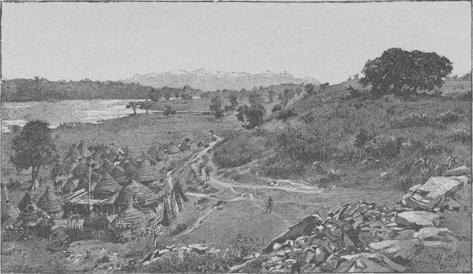 The village Madi close to Wadelai, Uganda. From the book "Stanleys expedition till Emin Paschas undsättning" (1890) Author: Alphonse-Jules Wauters Translator: Oscar Heinrich Dumrath